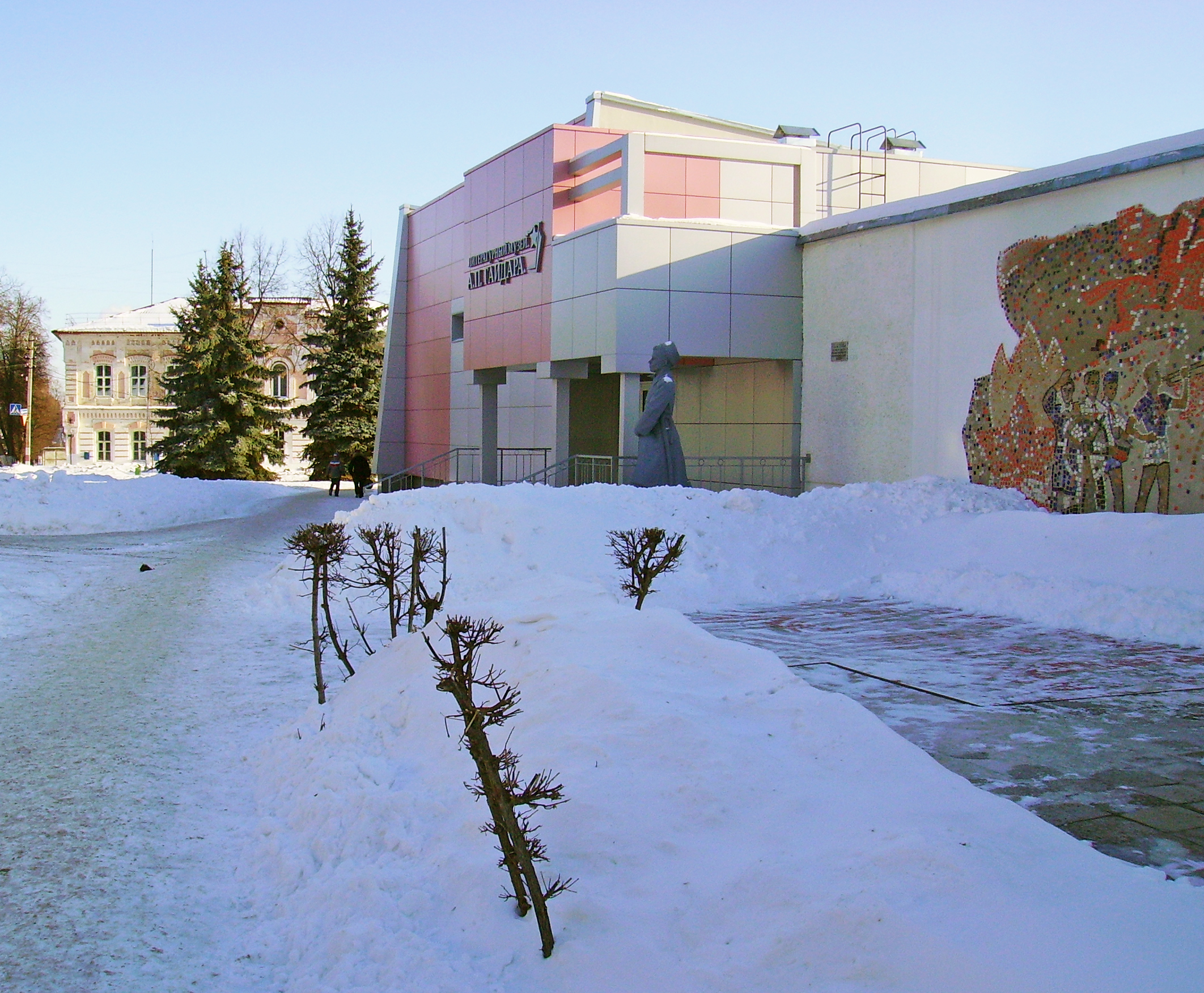 Arzamas. Near Literary Museum of Arkady Gaidar